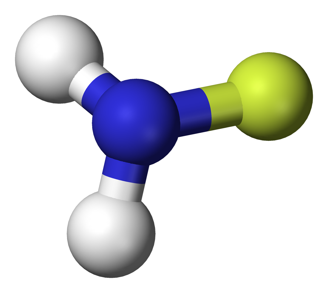 Structure of fluoroamine